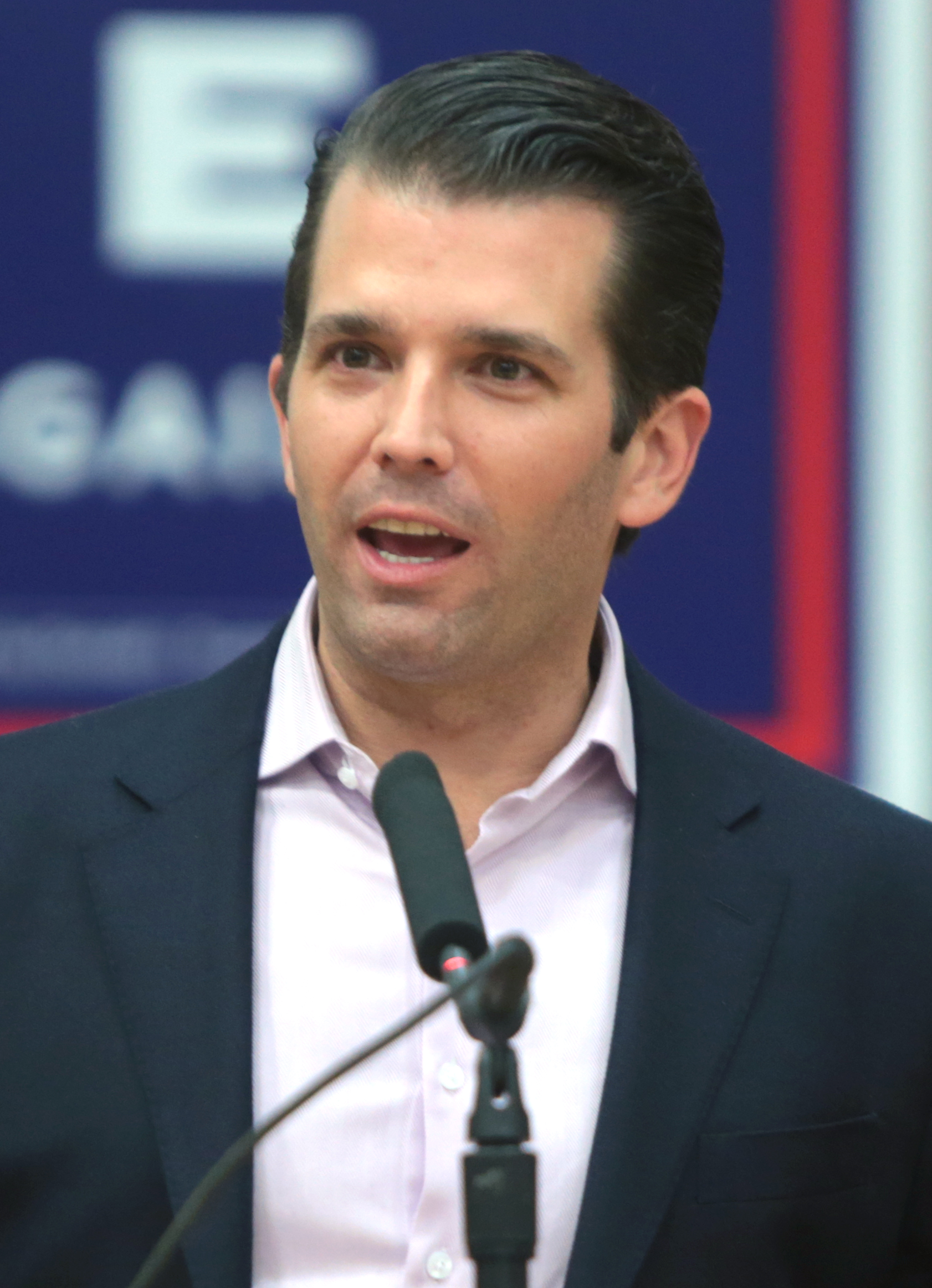 Donald Trump, Jr. speaking with supporters of his father, Donald Trump, at a campaign rally at the Sun Devil Fitness Center at Arizona State University in Tempe, Arizona.